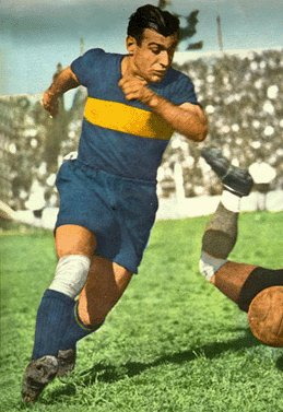 Varallo in action with Boca Juniors